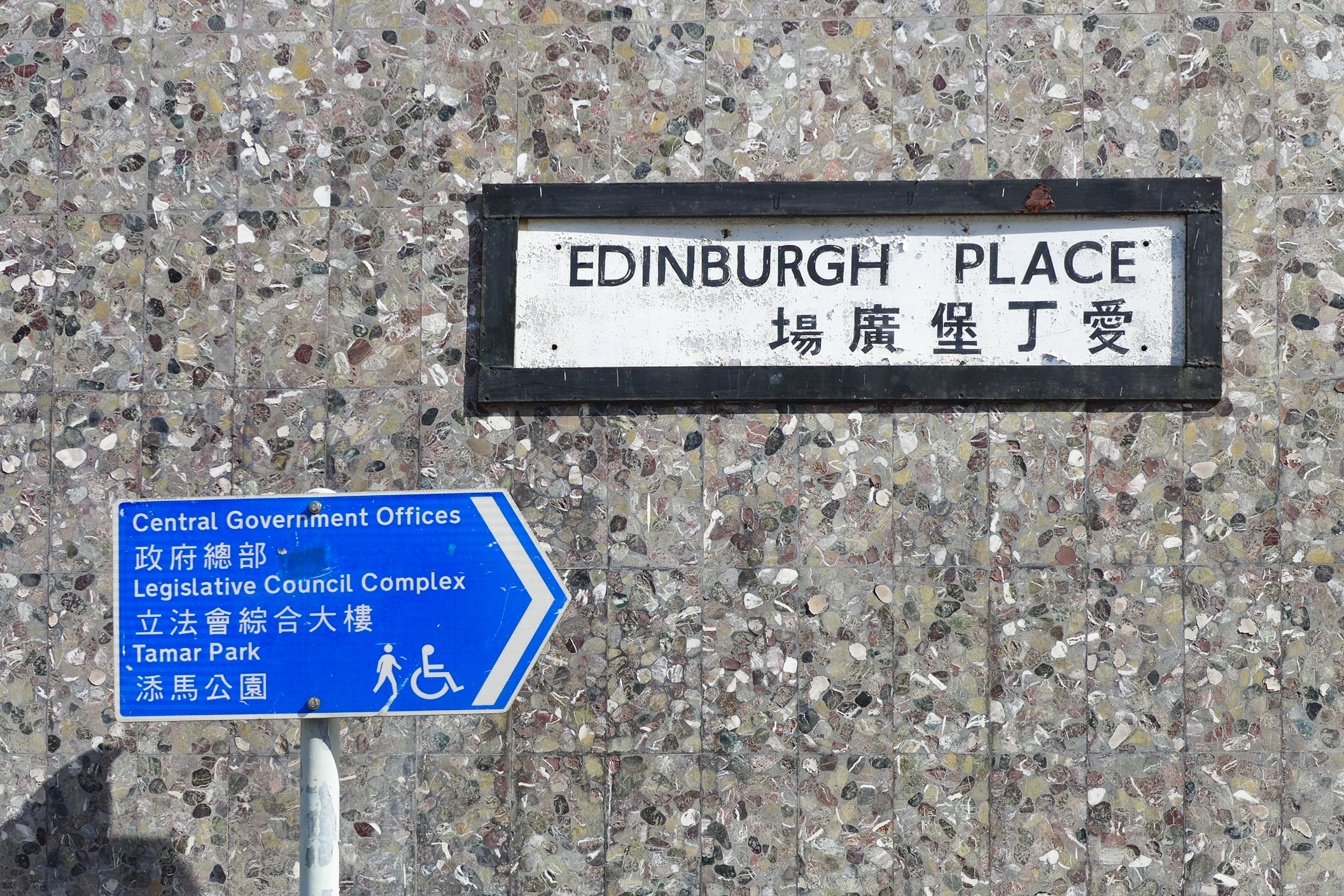 Edinburgh Place signage